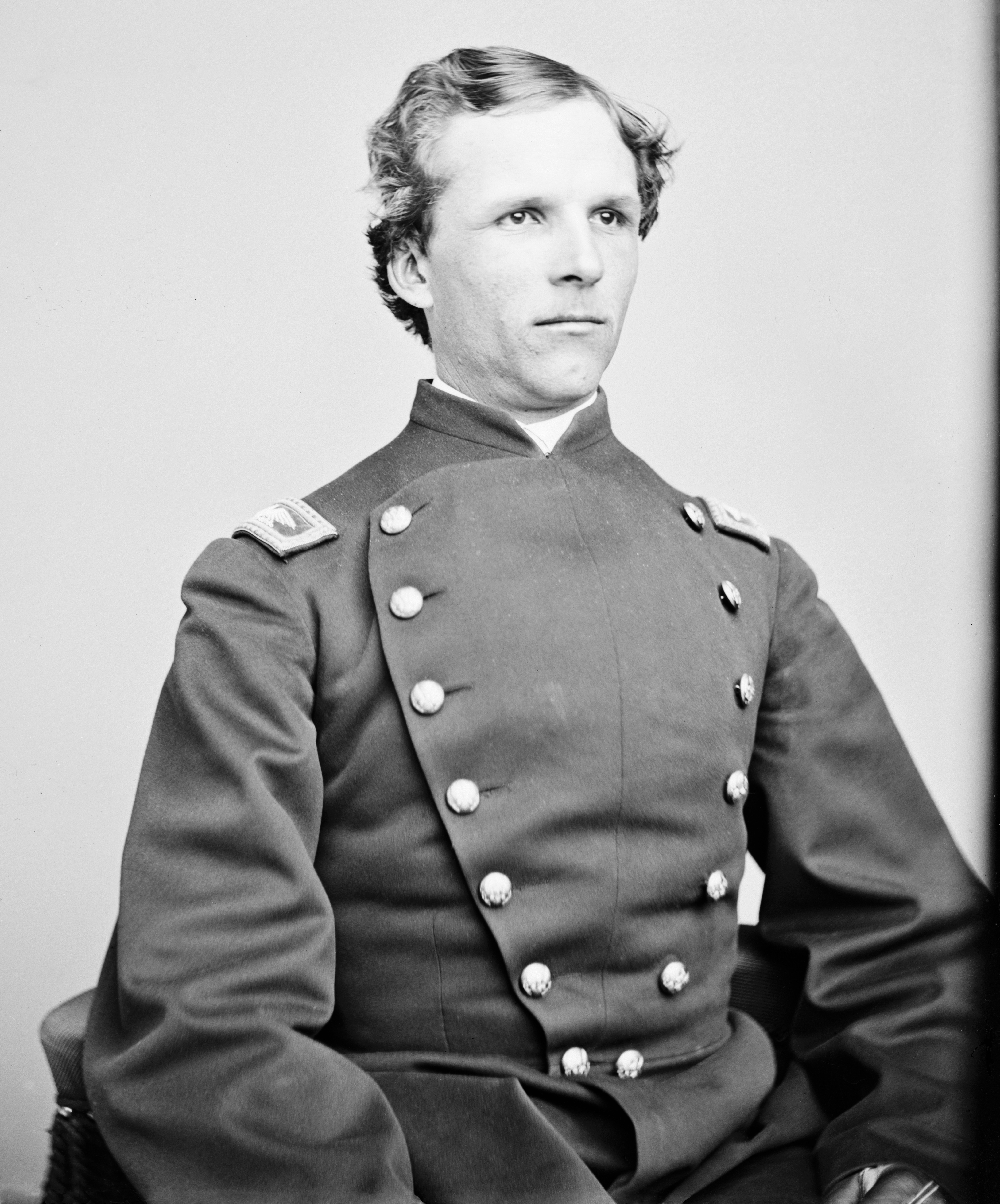 Samuel Chapman Armstrong (1839–1893) was an officer in the American Civil War, rising to the rank of general. Afterwards, he became an educator. He founded and was first principal of the Hampton Normal and Agricultural Institute, meant to educate black student in the south. It is now Hampton University.